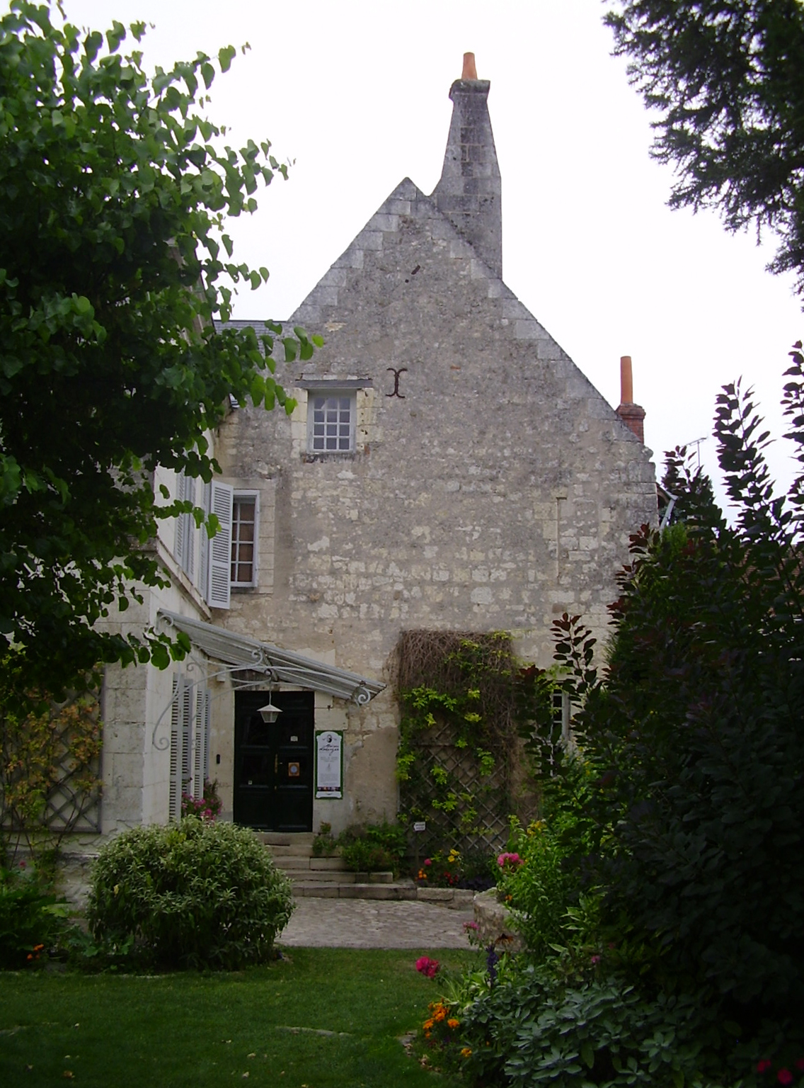 The house of French painter Emmanuel Lansyer in Loches (Indre-et-Loire, France)